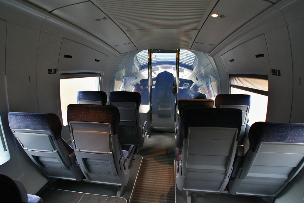 The front lounge of an ICE 3 (2nd class)